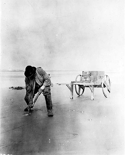 From John Cobb field notebook: Digging razor clams on the beach near Copalis, Wash. 1915 Subjects (LCTGM): Carts & wagons--Washington (State)--Copalis Subjects (LCSH): Clamming--Washington (State)--Copalis